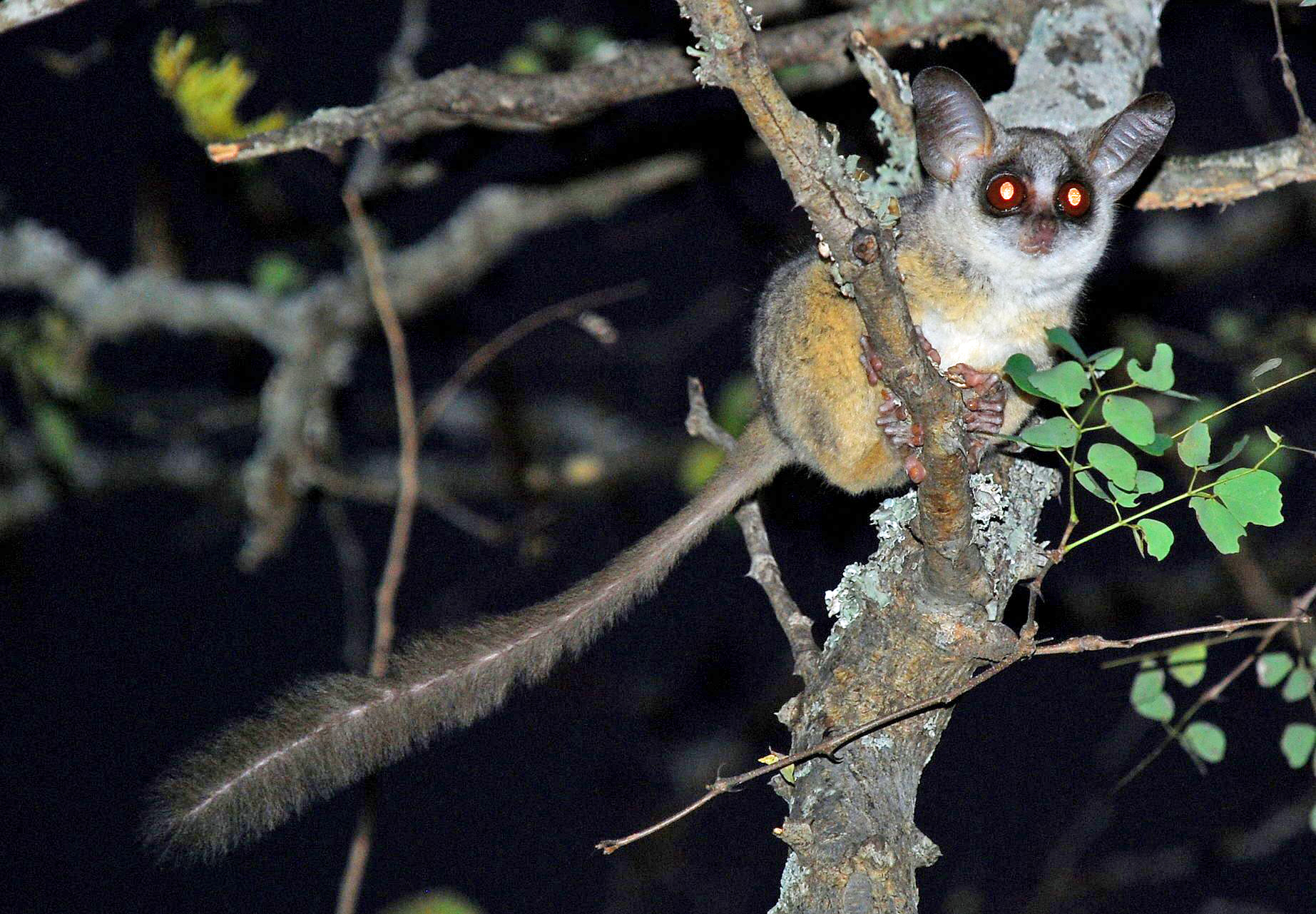 Mohol bushbaby, Galago moholi; a galago or bushbaby near the Kruger Nationalpark